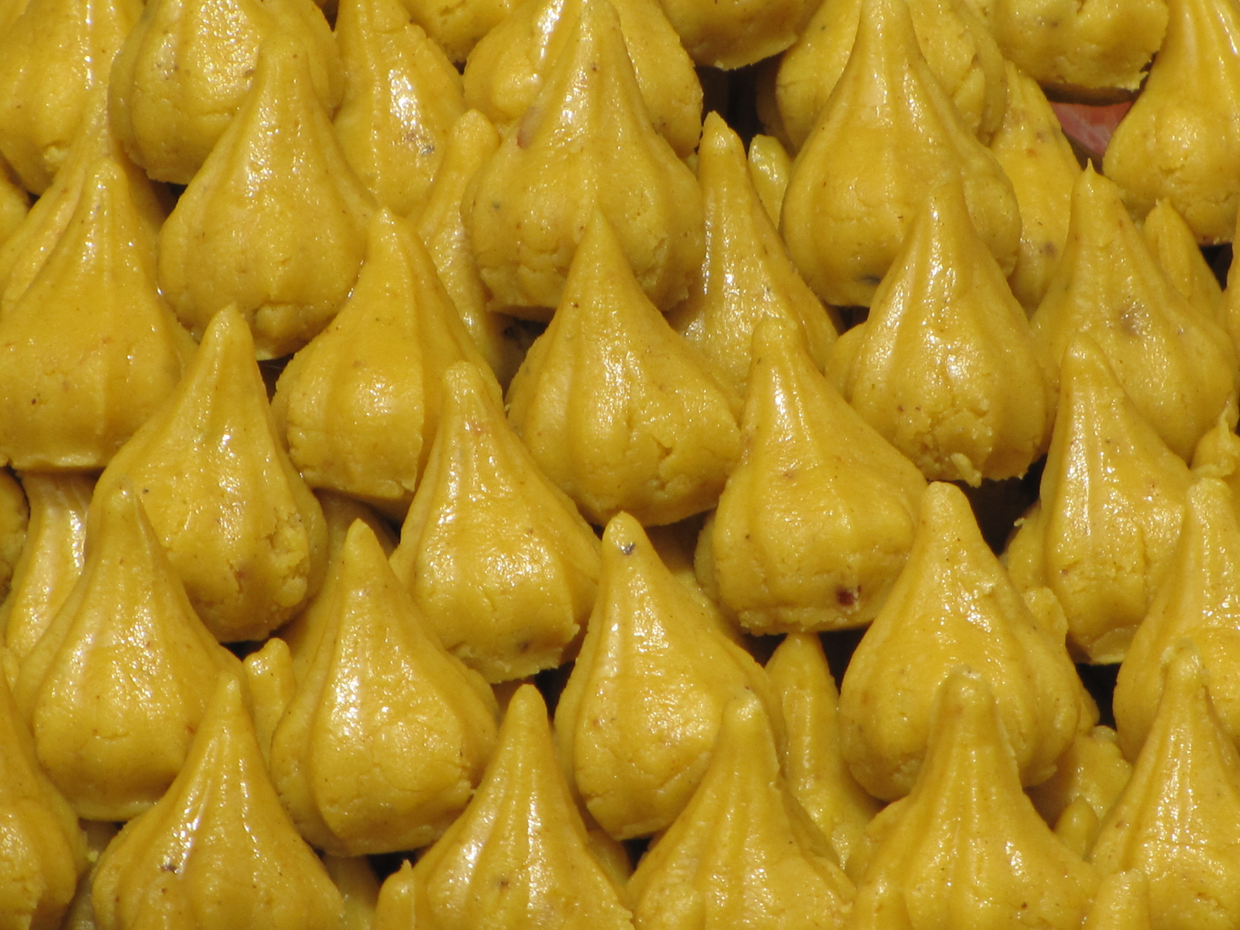 Ganesh Chaturthi (or Ganapati festival) is a very popular festival in India. A Ganesh idol made of special clay is brought home. Ganapati Pooja is popularised by India’s national leader Bal Gangadhar Tilak since the days India’s freedom struggle. The preparations begin atleast one week before the ‘Bhadrapada shukla chaturthi‘ a day on the Hindu calendar which normally occurs in August or September of every year. There are three aspects to the preparation. 1. Mantapa (Mandapa) - (Covered structure on pillars) This is a structure normally made of wood, which is decorated, and the Ganesha idol sits inside this mantapa. Mantapa is decorated to look alike a temple. The home entrance is decorated with mango leaves and flowers too. 2. Fruit basket This is an assortment of fruits, vegetables and a coconut tied to a structure in a neat and organized fashion and hung from the top just infront of the mantap. 3. Food preparations Modak,is are the most basic offerings to Ganesha. Many people add other sweets too.